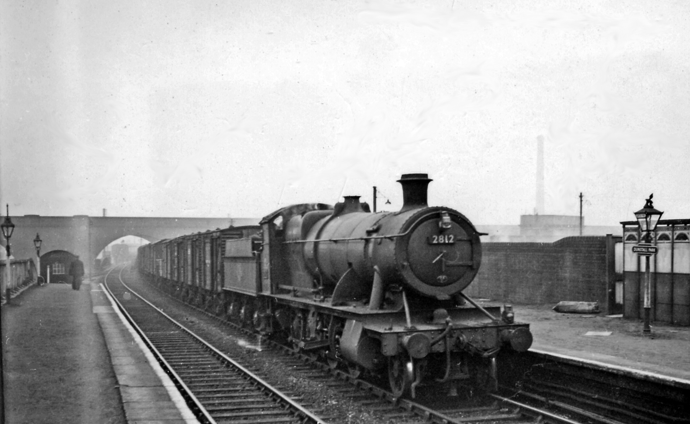 Down freight passing Dunstall Park station. View SE, towards Wolverhampton (Low Level), Birmingham (Snow Hill) etc.; ex-GWR Birmingham etc. - Shrewsbury - Chester main line. Dunstall Park station was closed 4/3/68, the main line trains from Shrewsbury etc. having been diverted from 6/3/67 onto the ex-LMS main line, following electrification of the latter. The locomotive on the Class H freight is one of the original Churchward '2800' 2-8-0s, No. 2812